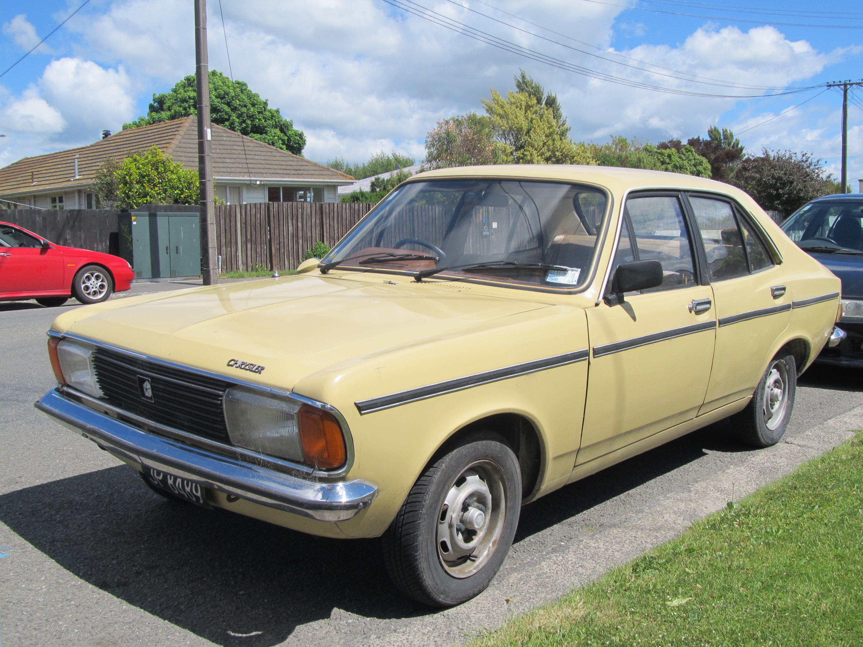 JP8489 I've spotted this before, but I thought it was worth another shot as it is a pretty tidy Avenger! It's also one of the last, as it was registered in the last year of production in New Zealand... That's our 156 over the road, waiting patiently!